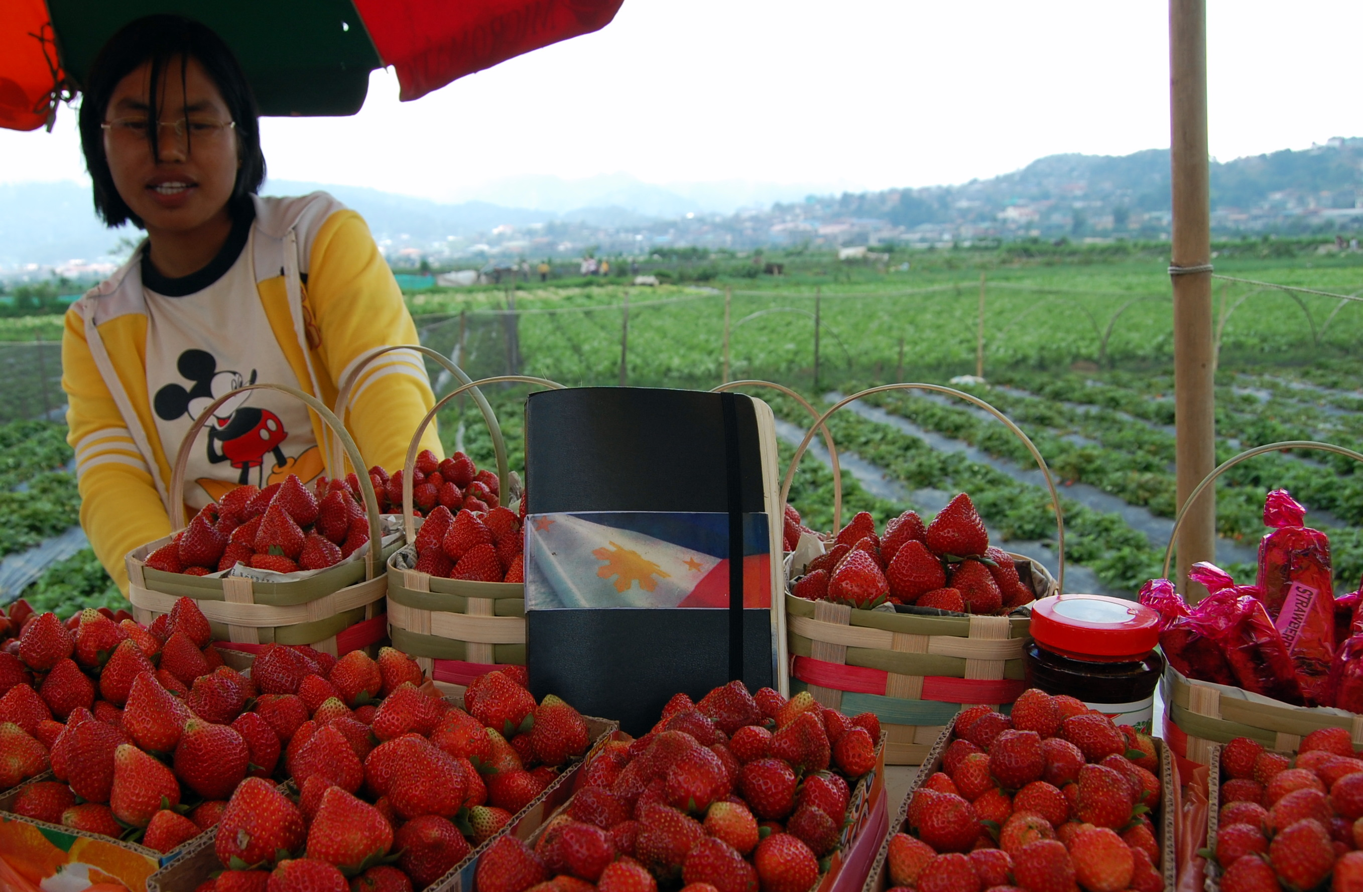 Just across the Benguet State University in La Trinidad are the famous Strawberry Fields where Baguio City's strawberry fruits and jams and preserves are actually produced. I had the fresh fruit and the ice cream version too. The air smelled of pesticides. Lagalag's Notebook 2 came along to meet sepia_eye but she's out of town. Nikon D40 (KOOL NE Program Review Workshop, March 2008).